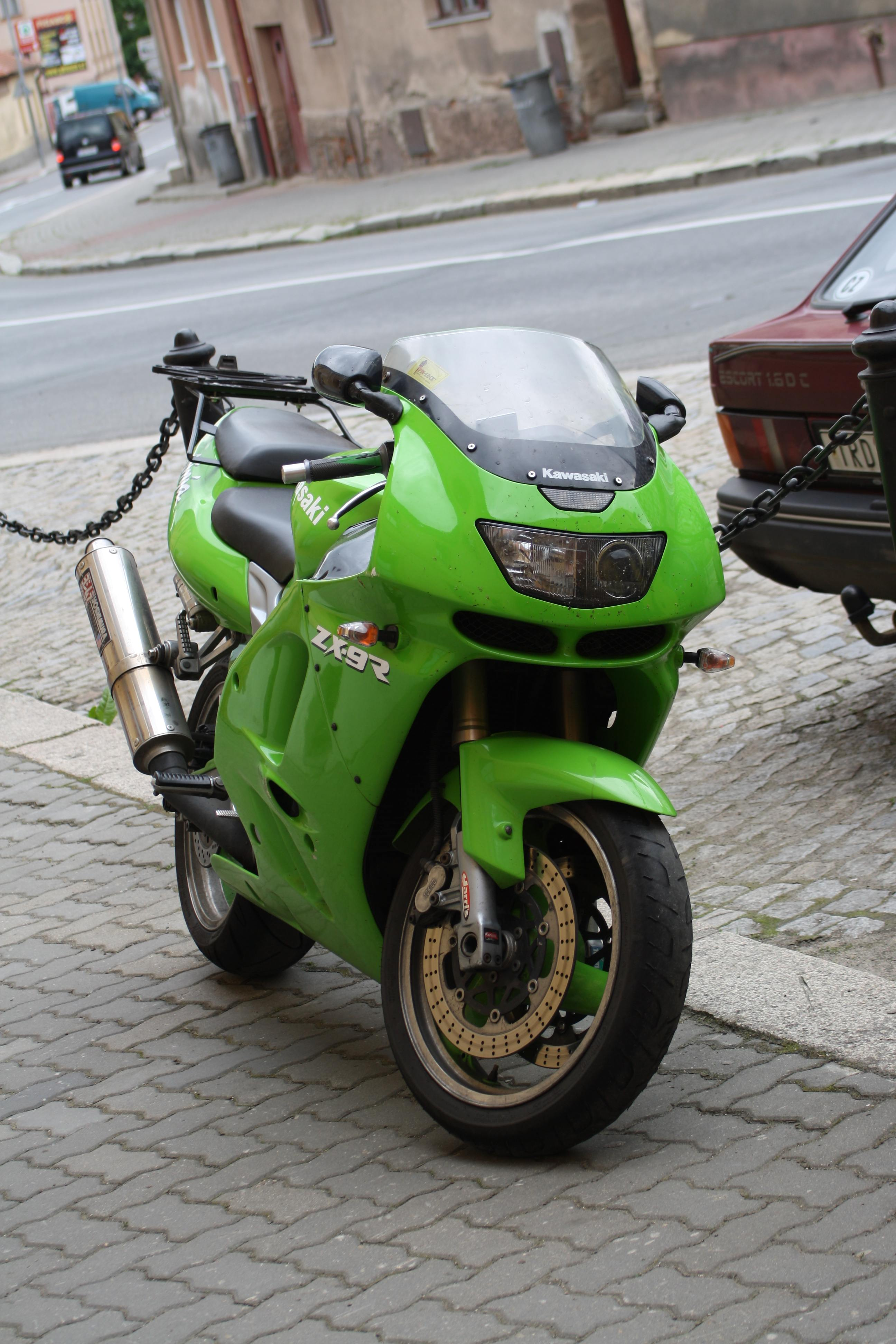 Kawasaki Ninja ZX-9R in Třebíč, Czech Republic.